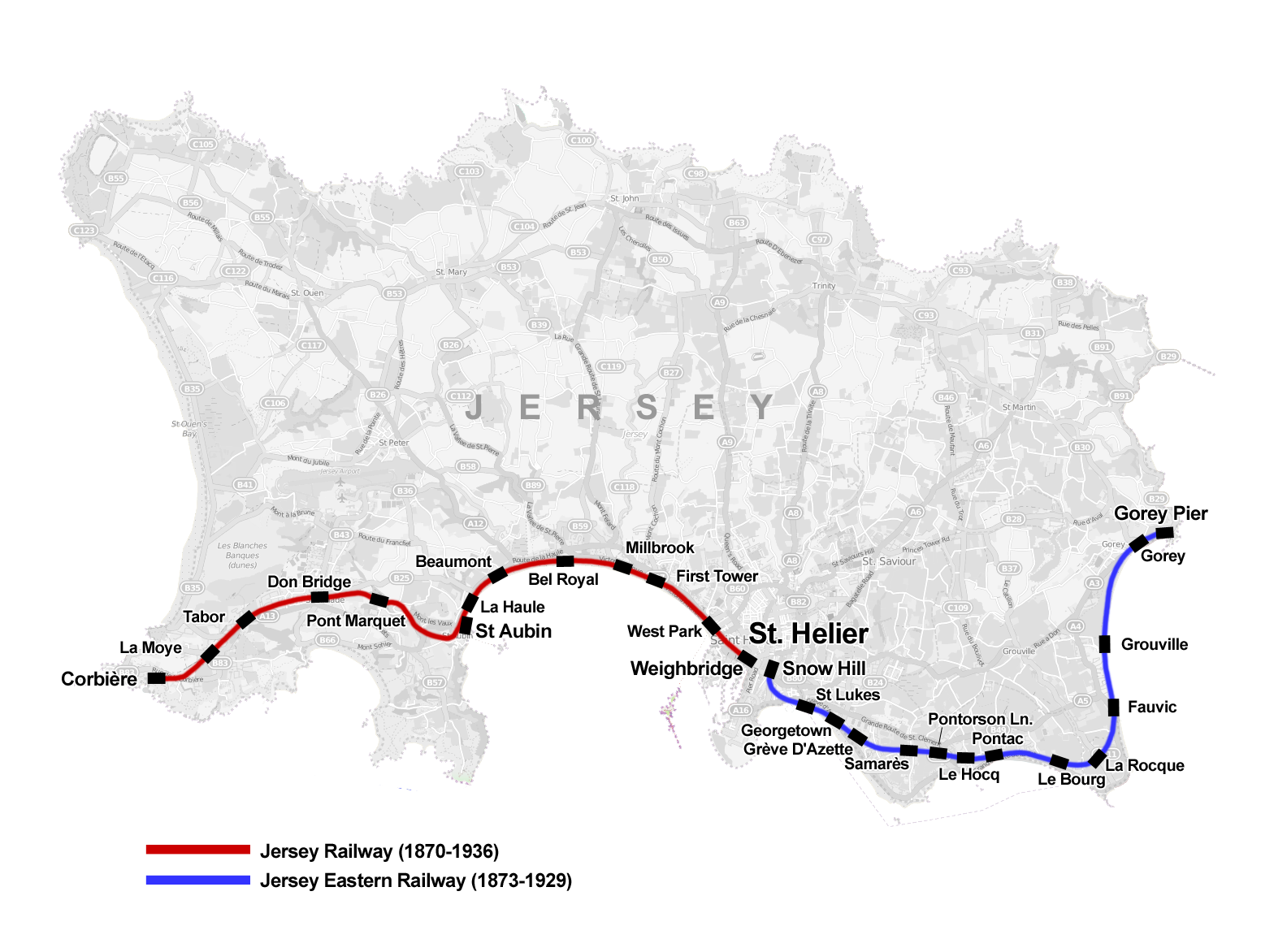 Map of the former railway lines on the Island of Jersey, Channel Islands, the Jersey Railway (1870-1936) and the Jersey Eastern Railway (1873-1929). This map may be incomplete, and may contain errors. Don't rely solely on it for navigation.